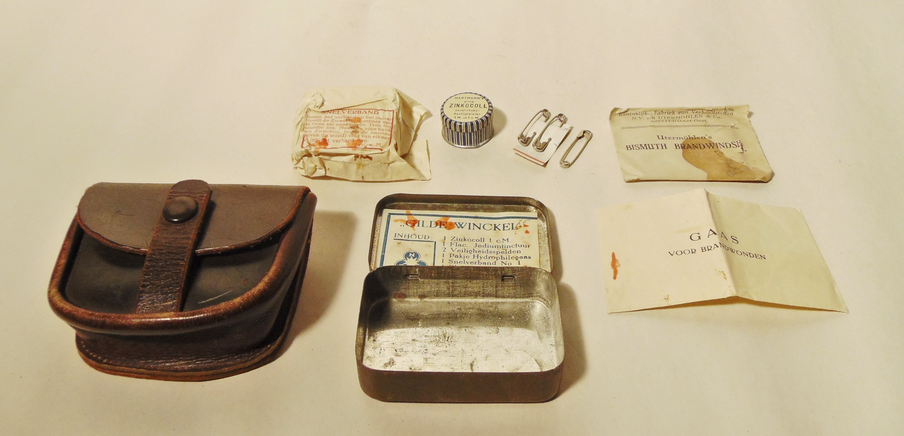 First aid tin in leather pouch, containing iodine tincture, tape, safety pins, gaze and a bandage, 1940s Photographed in the collection of the National Liberation Museum 1944-1945, the Netherlands, archive number 094.082